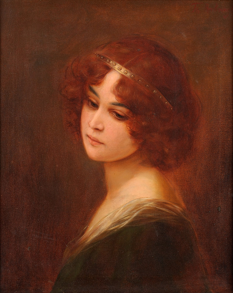 Rothaarige Schönheit